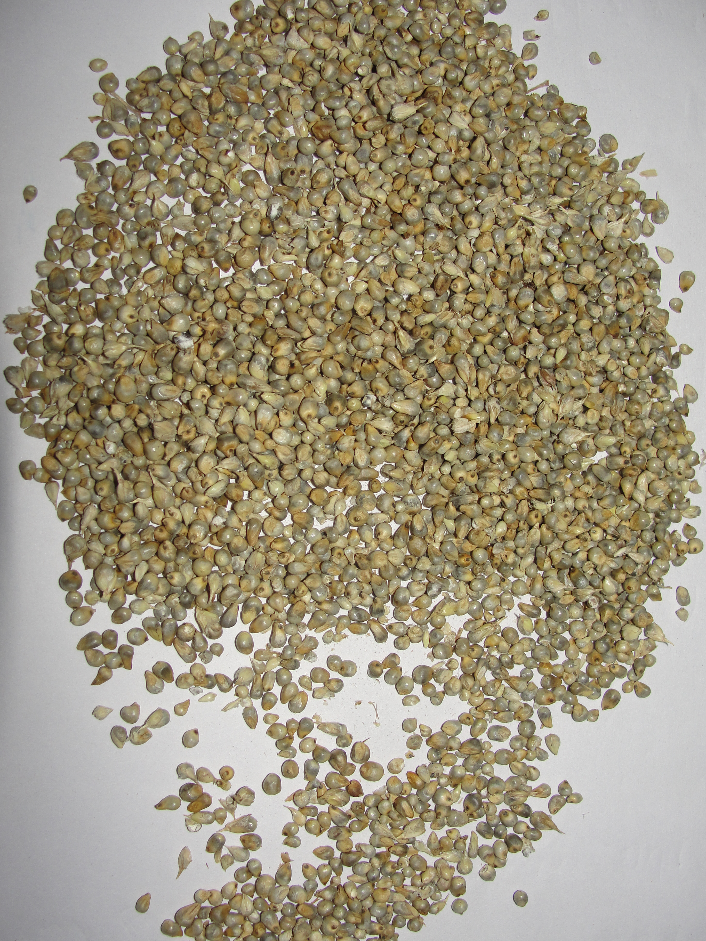 Pearl millet